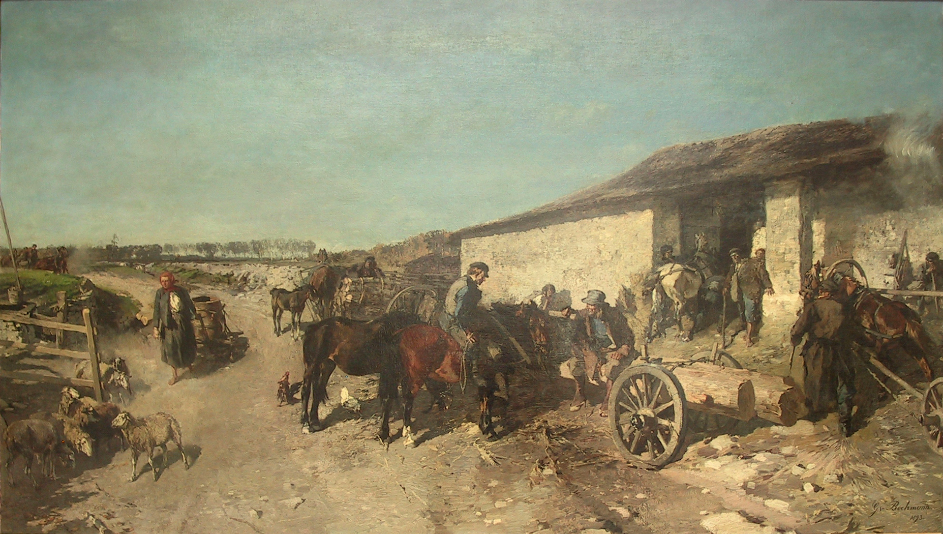 This is an oil painting by the baltic-german painter Gregor von Bochmann (1850 - 1930). It is entitled "Estnische Bauern vor dem Gehöft des Schmiedes" (Estonian peasants in front of the blacksmith's house). The size of the painting is 90 x 155 cm. It is number B0381 in the work catalog. The photograph was taken in 2002. The painting belongs to the "Stiftung Sammlung Volmer"( Wuppertal, Germany.